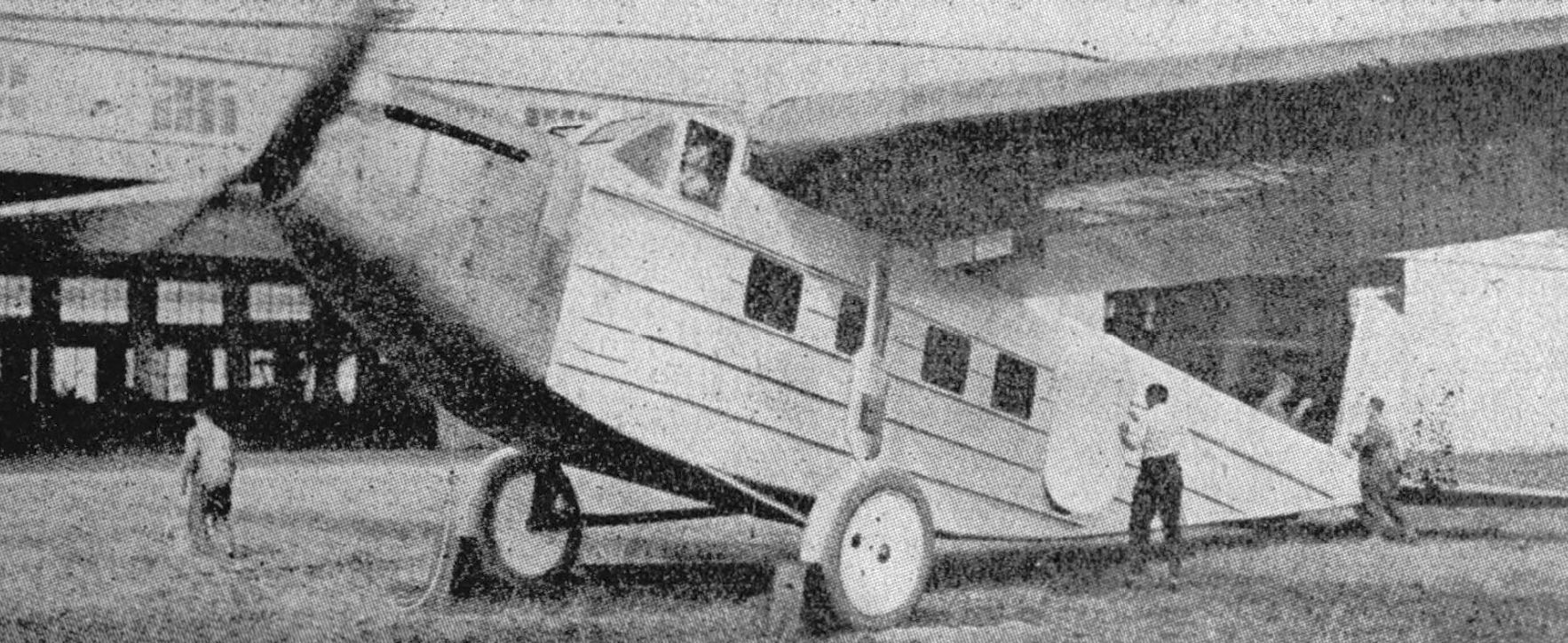 Messerschmitt M 20 photo from Le Document aéronautique March,1929